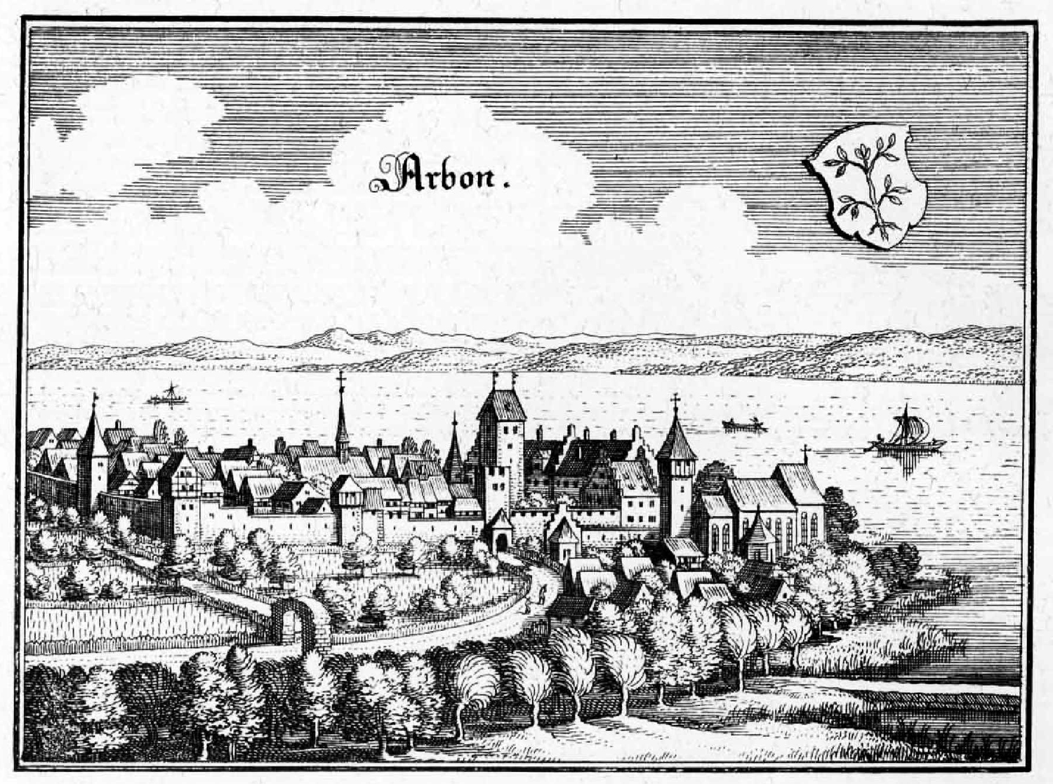 View of the town of Arbon, Switzerland, 1643